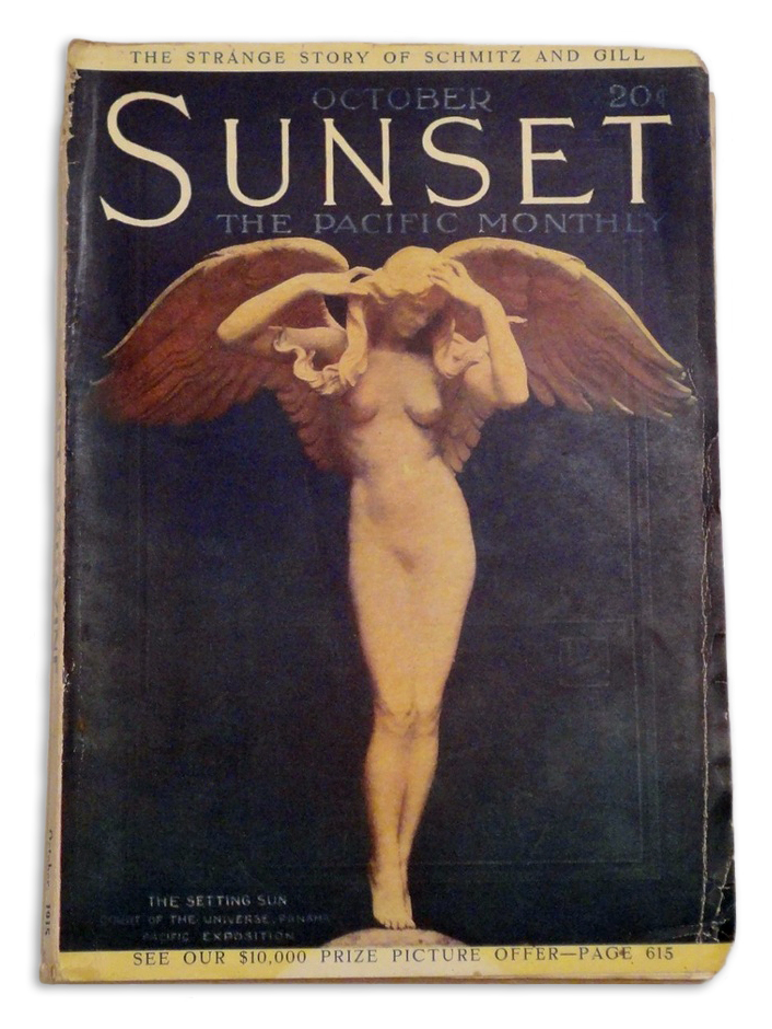 Front cover of Sunset, The Pacific Monthly magazine, featuring a photograph of The Setting Sun, a sculpture by Adolph Alexander Weinman that was created for the Panama–Pacific International Exposition. The model for the sculpture was Audrey Munson; more information here.